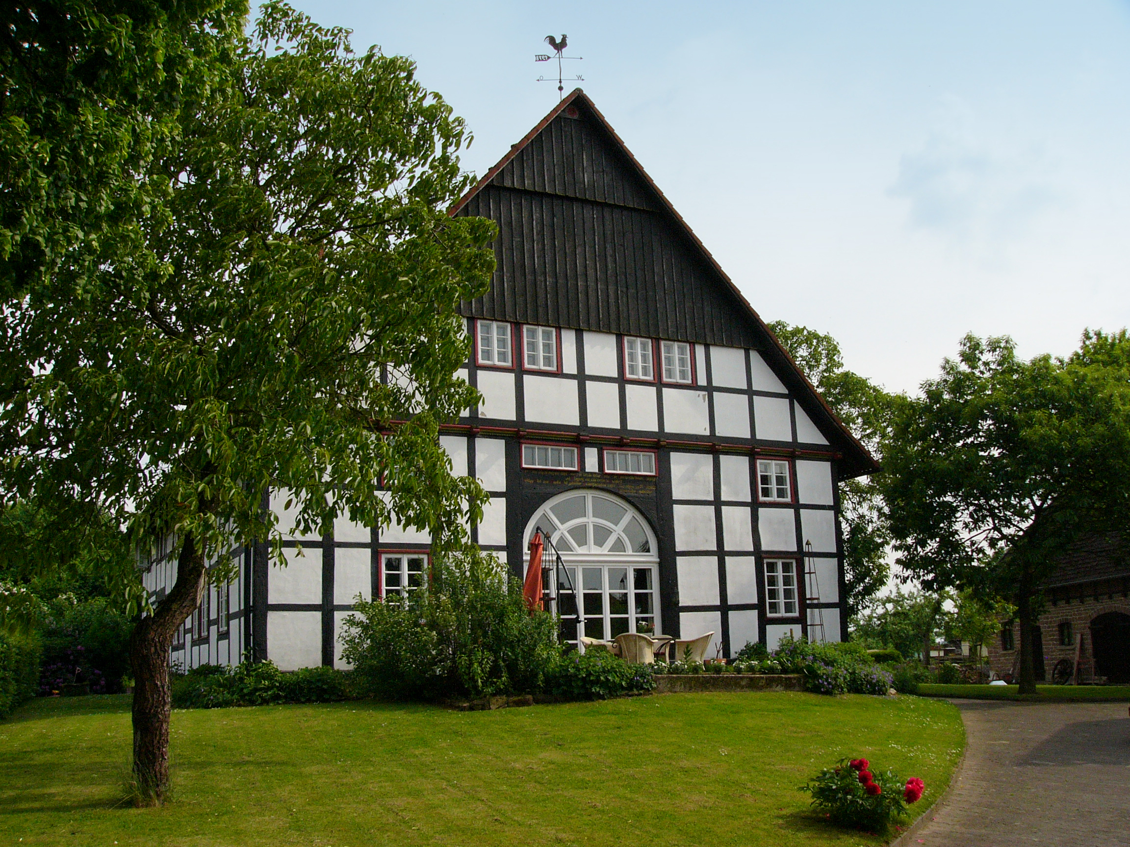 Timber frame farmhouse near Blomberg, District of Lippe, North Rhine-Westphalia, Germany.